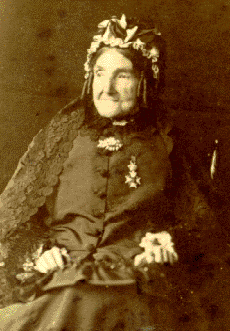 Photo of Maria Doolaeghe, a Belgian writer.